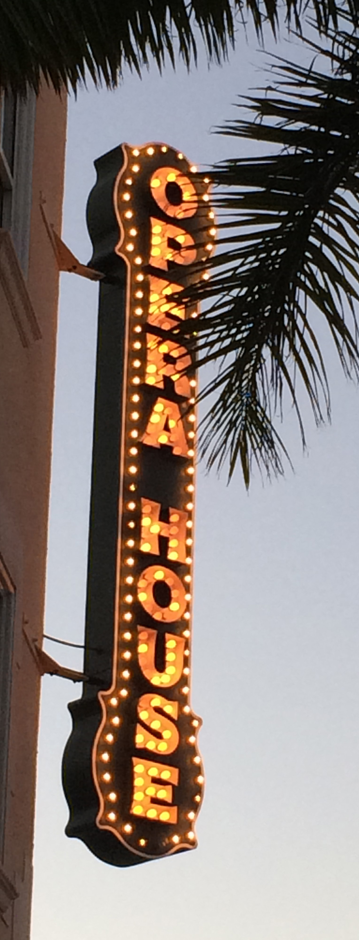 Exterior lighted sign outside Sarasota Opera house